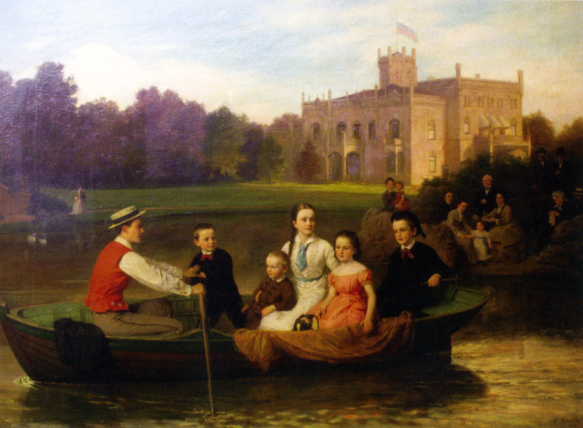 Painting of Schloss Mühlenthal in St. Magnus, Bremen, Germany